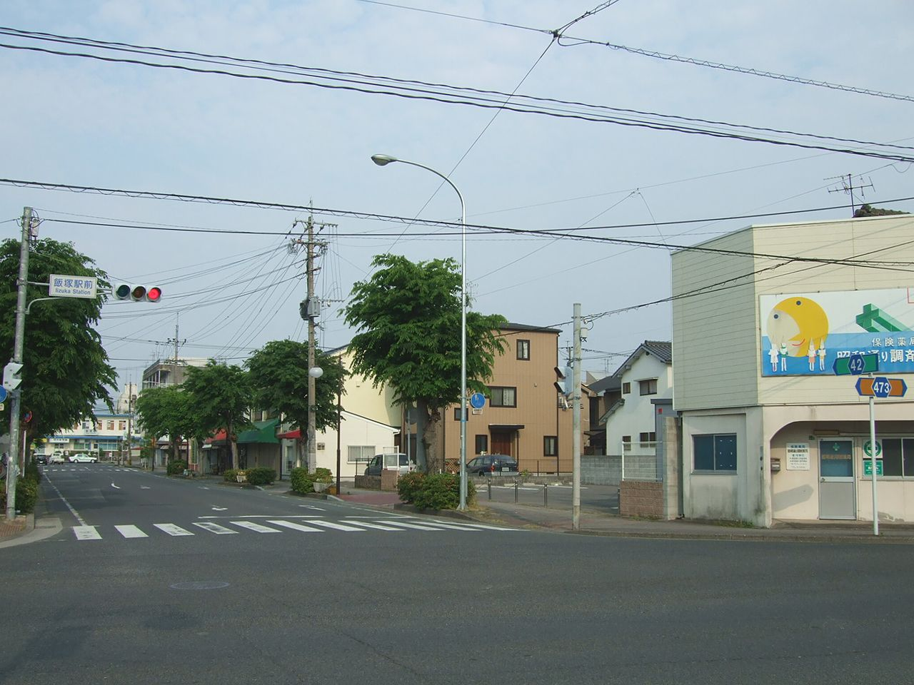 Fukuoka National Road No.42